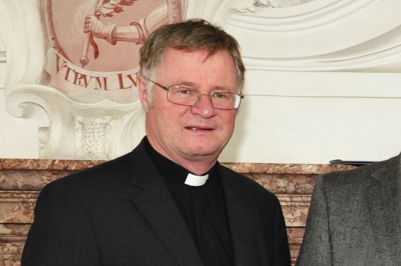 Bishop Manfred Scheuer.